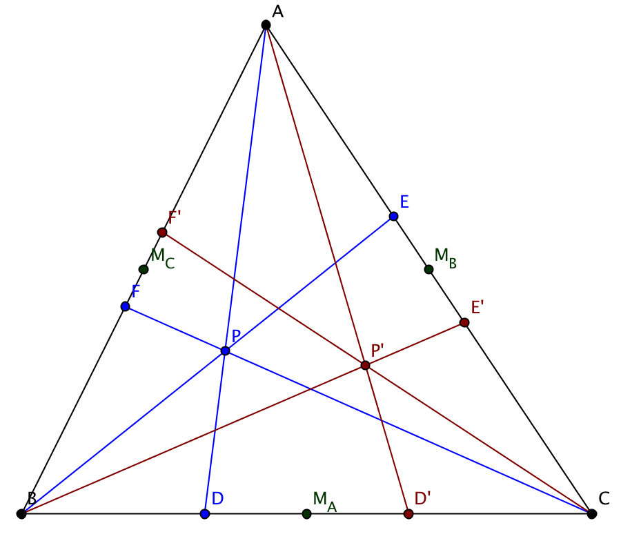 The isotomic conjugate of a point P respect to the triangle ABC